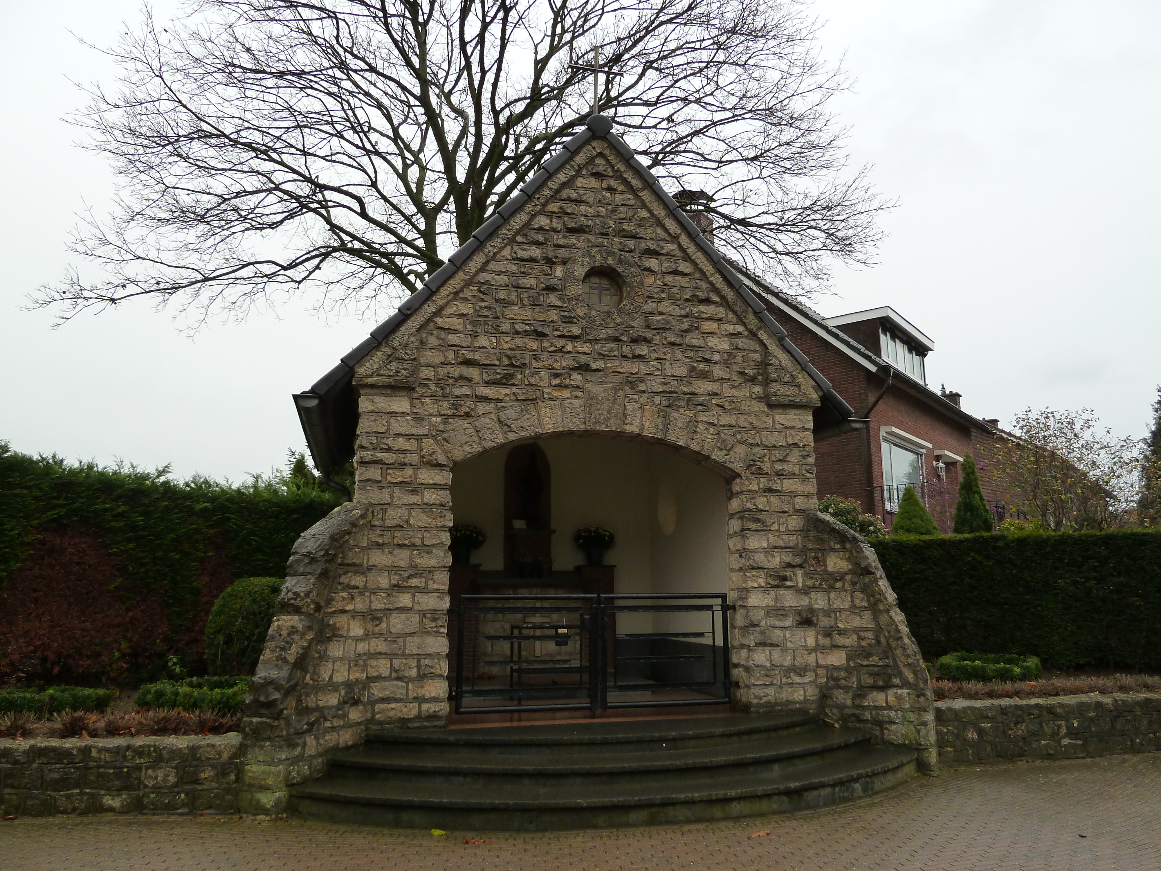 Chapel Colmont, Ubachsberg, Limburg, the Netherlands